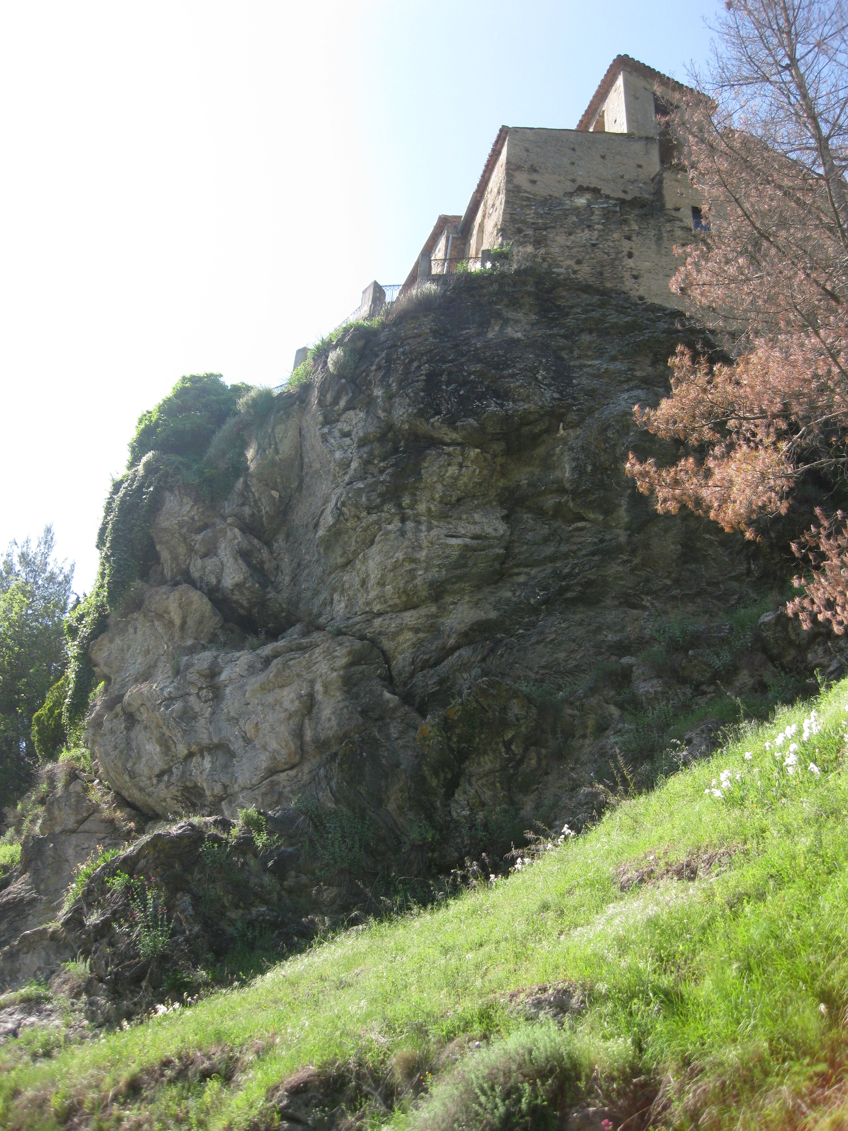 Il masso su cui poggia il Convento di San Francesco di Paola, Pedace